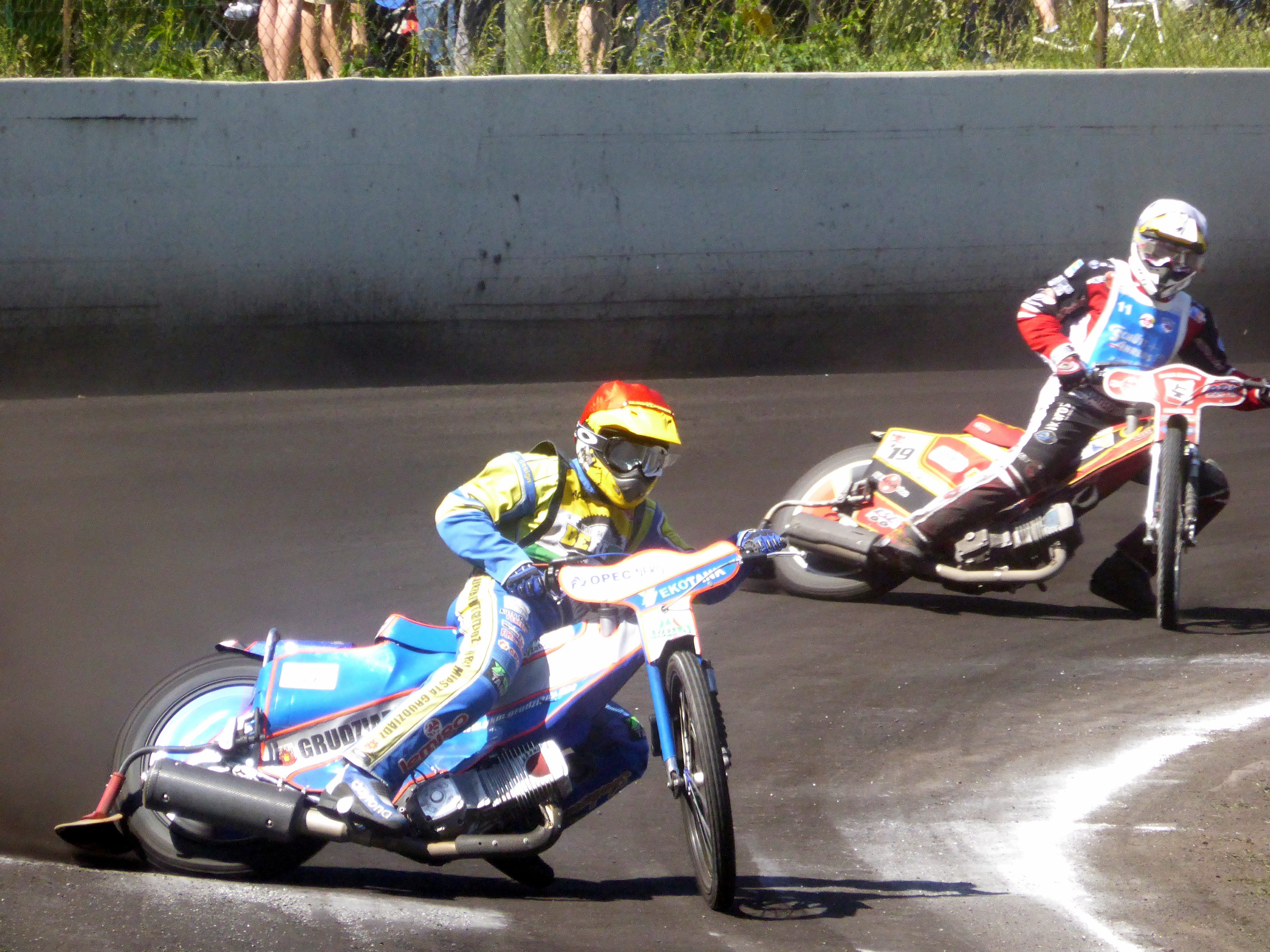 German Speedway Bundesliga. Wolfslake Falubaz Berlin vs Nordstern Stralsund in Wolkfslake.